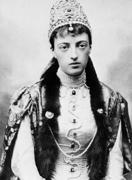 Russian ball at the GD Vladimir Alex. and Maria Pavlovna's Palace on the 25th january of 1883 . Grand Duchess Anastasia Mikhailovna of Russia